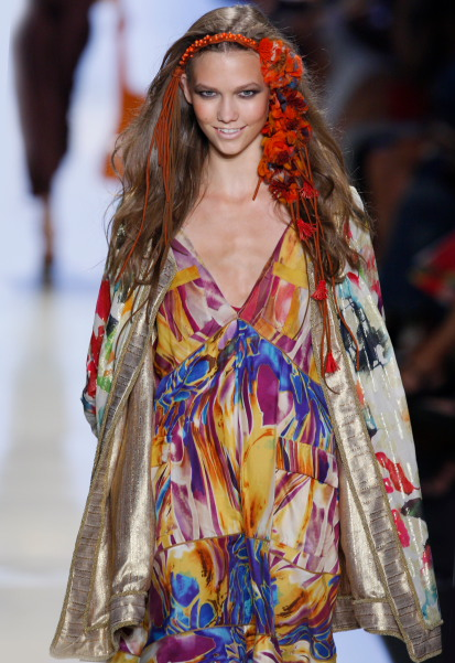 Karlie Kloss at Anna Sui.